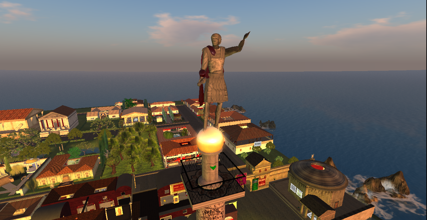 A statue of Trajan in ROMA in the virtual universe of Second Life.